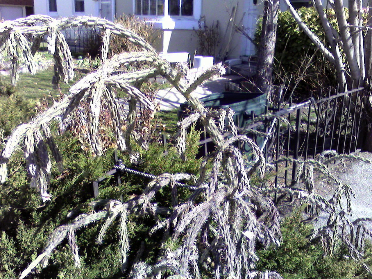 Tree Cholla cactus.